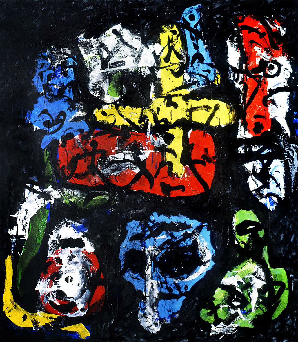 Mixed Media 160 x 140 cm